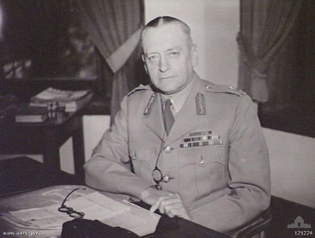 Major General Herbert Lloyd, CB CMG CVO DSO, VX133091